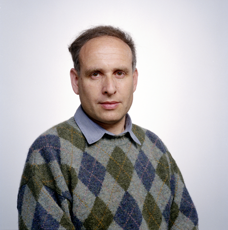 Eddo Rosenthal